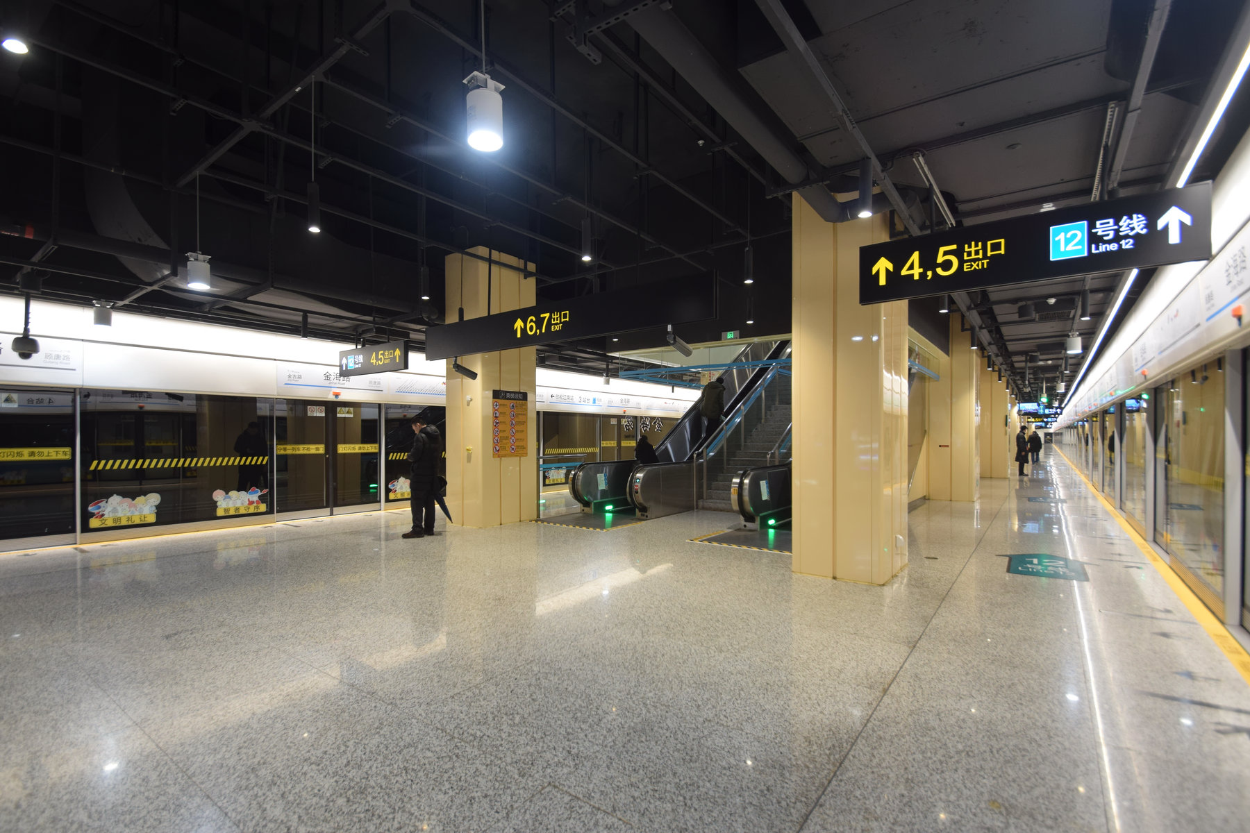 Line 9 Platform of Jinhai Road Station, Shanghai Metro